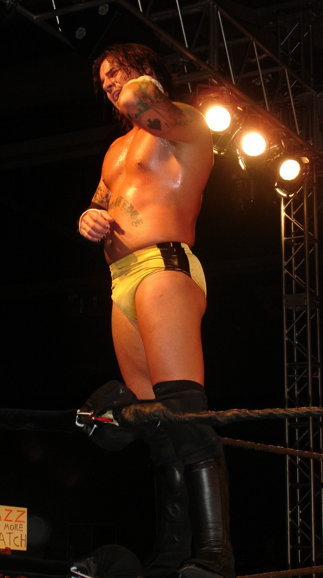 Straight-edge hero and wrestling star CM Punk shakes off the bruising when ECW visits the Palmer Events Center in Austin, Texas, on Monday July 17, 2006.Survivor